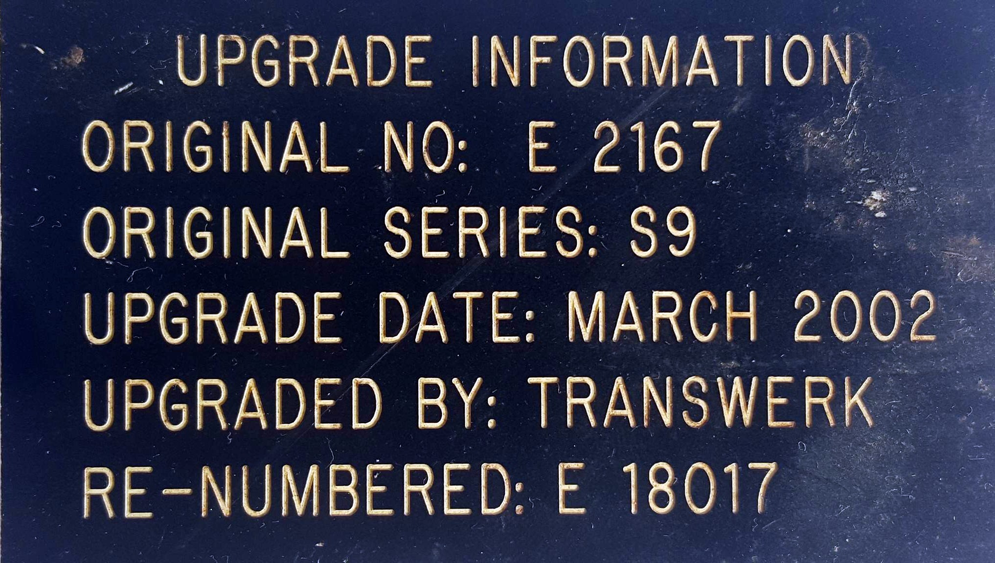 Rebuild plate in Spoornet Class 18E no. 18-017